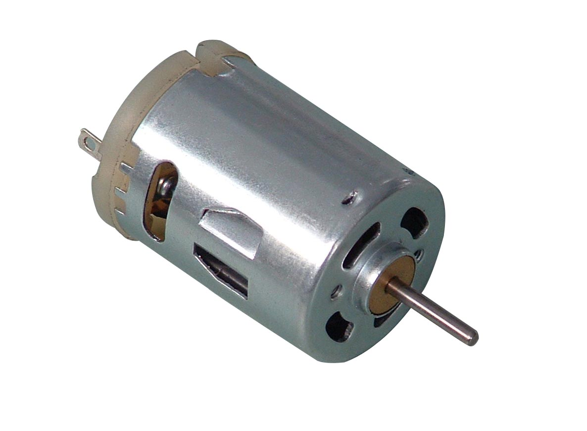 This is a direct connect motor that can be used for multiple projects. It needs at least 3V of power to run.